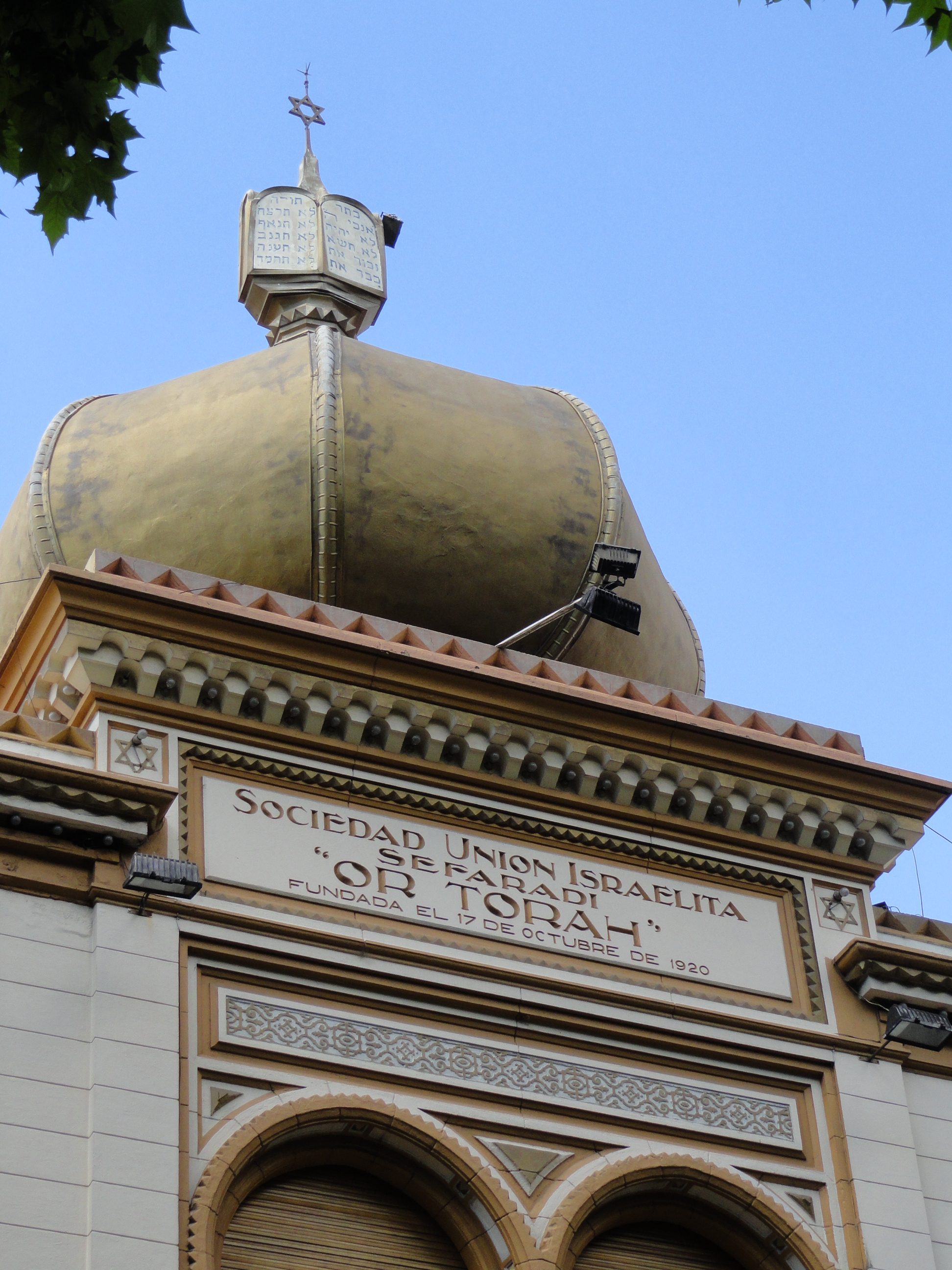 Syrian sephardi synagogue Or Torah in Buenos Aires (Argentina)